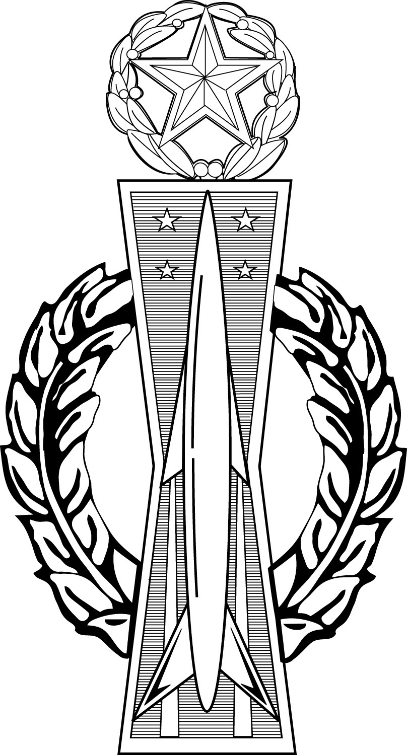 Command missile operations badge